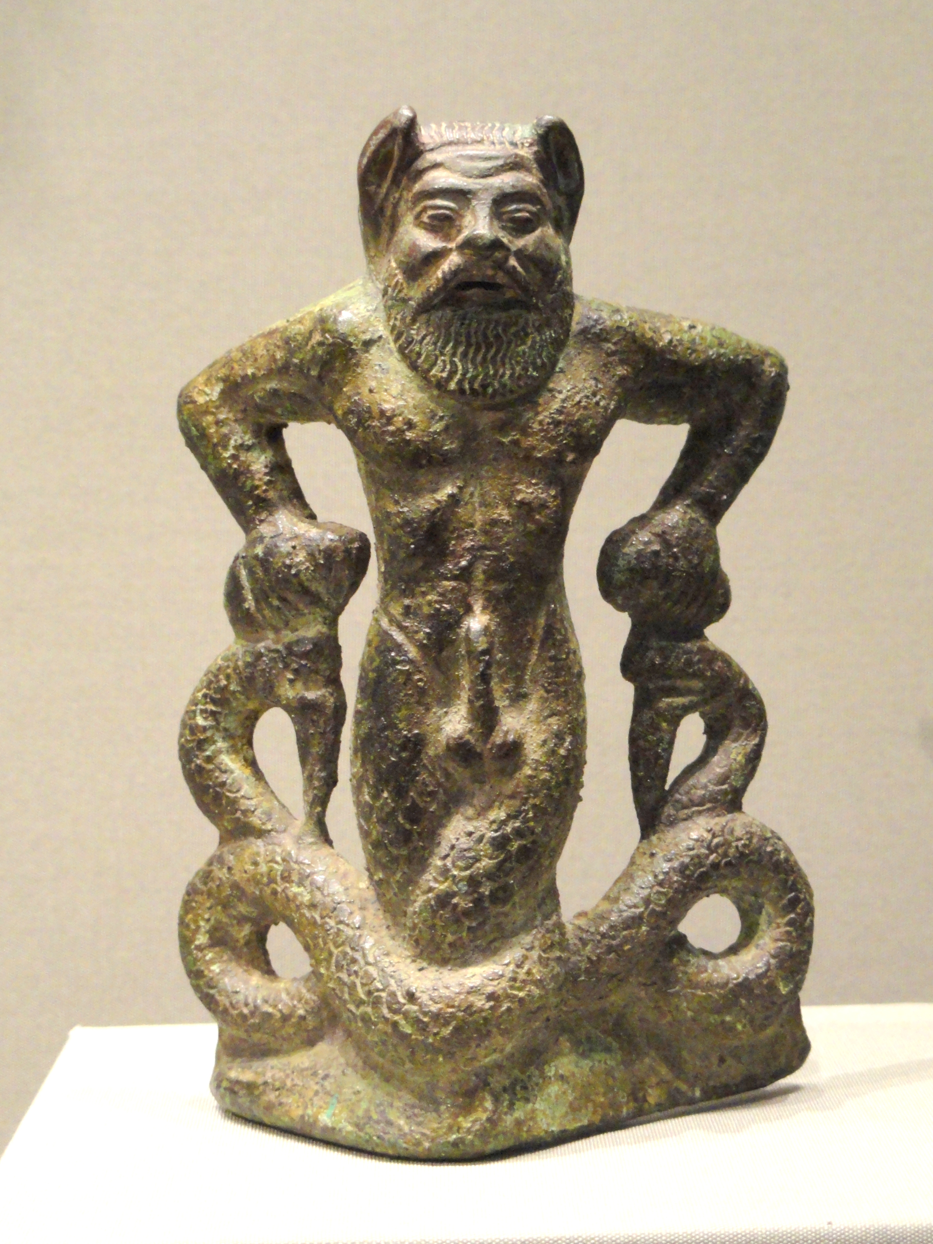 Exhibit in the Cleveland Museum of Art, Cleveland, Ohio, USA. This artwork is old enough so that it is in the public domain.